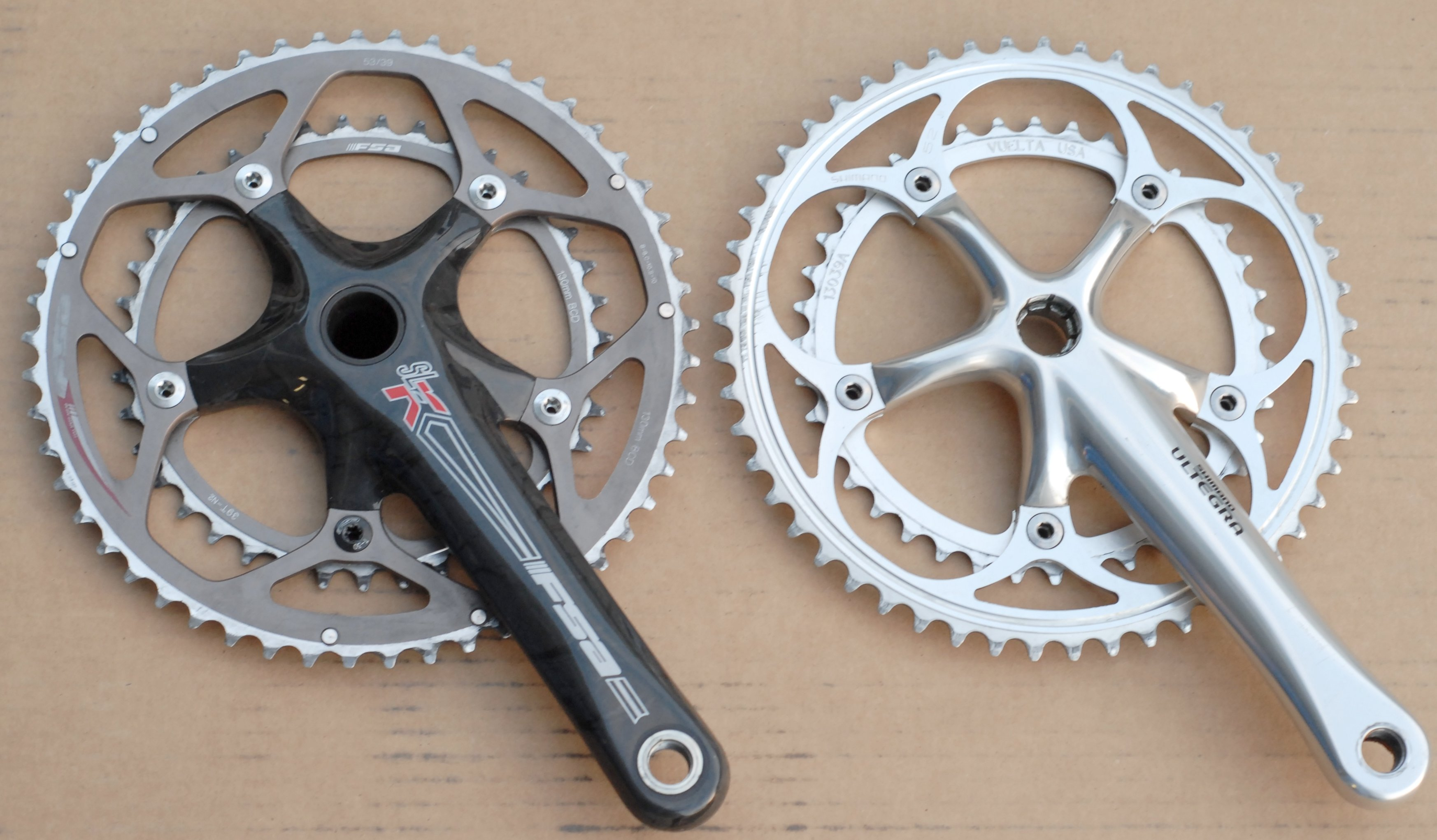 At the left, is a thoroughly modern FSA SLK carbon fibre crankset with 53/39 rings. At the right is a thoroughly old school Shimano Ultegra 52/39 crankset made of good old fashioned aluminum. The FSA offers the latest in high modulus carbon fiber, the newer external bearing bottom bracket design, nickel plated chainrings with ramps and pins to aid shifting…. The Shimano crankset uses the older splined style internal cartridge bottom bracket, also has ramps and pins. The FSA is indeed lighter, and is supposed to be stiffer, but mere mortals will never be turning the cranks with enough power to really notice the stiffness. So is the FSA really any better? I am not sure, I know that it offers the cachet that high end carbon parts bring to bikes, and that guys like to show off to their buds. I also know that the clear coat on the carbon scuffs up pretty easily. Which one is normally on my best bike? Well, you got me there, I’m a sucker for fashion too. It’s the one on the left